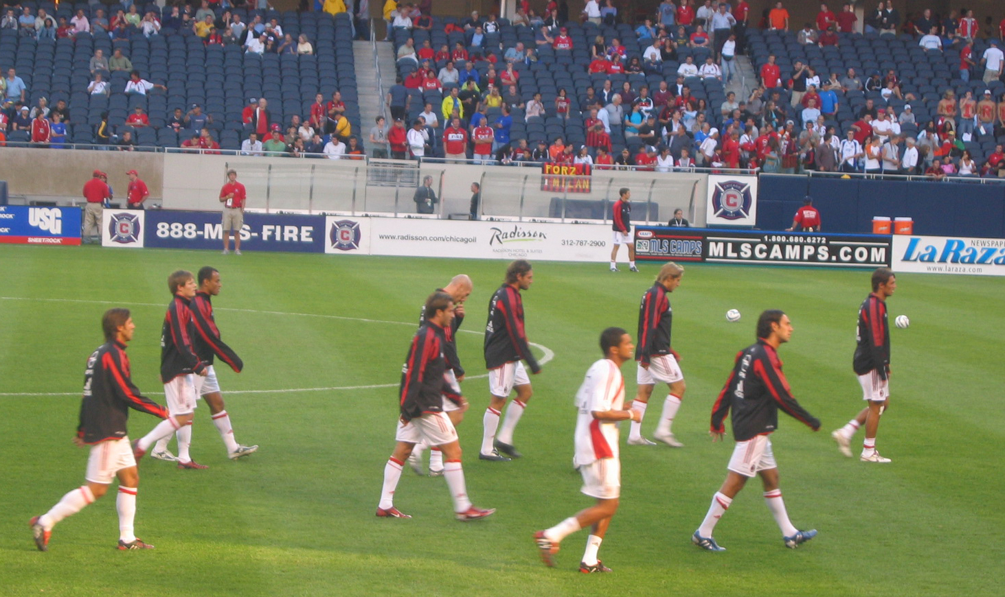 Gracze Milanu na boisku w Chicago (2006 r.) Milan players in Chicago, 2006.